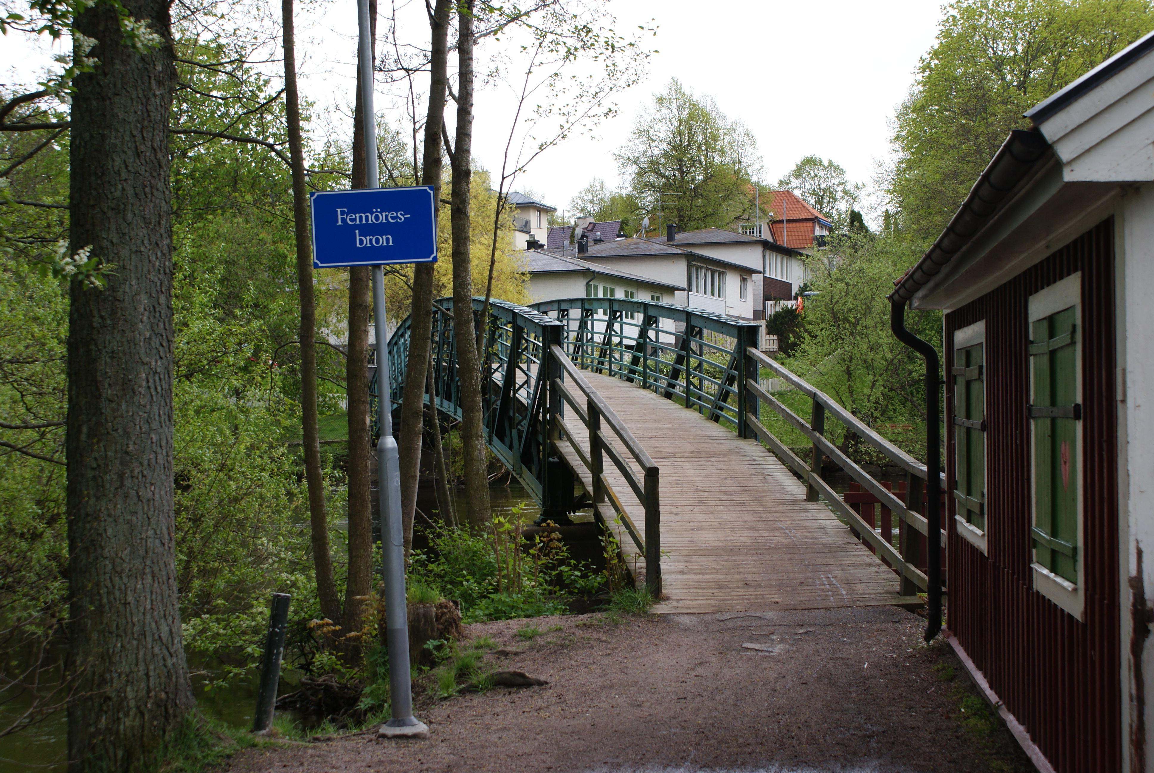 Femöresbrön (five-öre-bridge) in Norrköping seen frpm the north side.